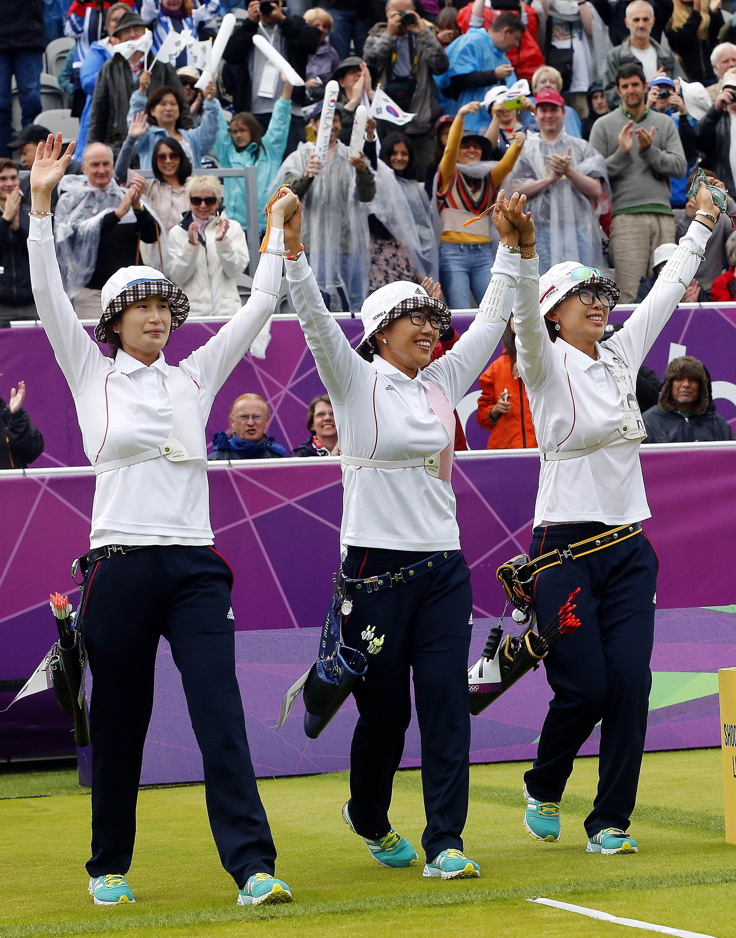 2012 London Olympic Games Korea Archery Women's Team won the gold medal 2012.7.30. Photo by Korean Olympic Committee Ministry of Culture, Sports and Tourism Korean Culture and Information Service 2012 런던 올림픽 한국 여자양궁 대표팀 단체전 금메달 획득 사진제공 - 대한체육회 문화체육관광부 해외문화홍보원